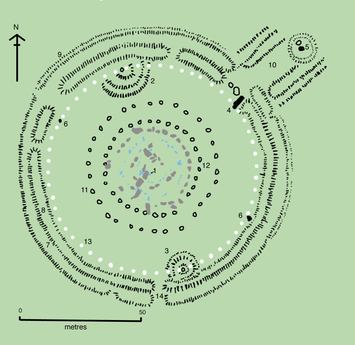 The site as of AD 2004. The plan omits the trilithon lintels for clarity. Holes that no longer, or never, contained stones are shown as open circles and stones visible today are shown coloured, grey for sarsen and blue for the imported stone, mainly bluestone. Key to plan: 1 = The Altar Stone, a six ton monolith of green micaceous sandstone from Wales 2 = barrow without a burial 3 = "Barrows" (without burials) 4 = The fallen Slaughter Stone, 4.9 metres long 5 = The Heel Stone 6 = Two of originally four Station Stones 7 = Ditch 8 = Inner bank 9 = Outer bank 10 = The Avenue, a parallel pair of ditches and banks leading 3 km to the River Avon 11 = Ring of 30 pits called the Y Holes 12 = Ring of 29 pits called the Z Holes 13 = Circle of 56 pits, known as the Aubrey holes 14 = Smaller southern entrance